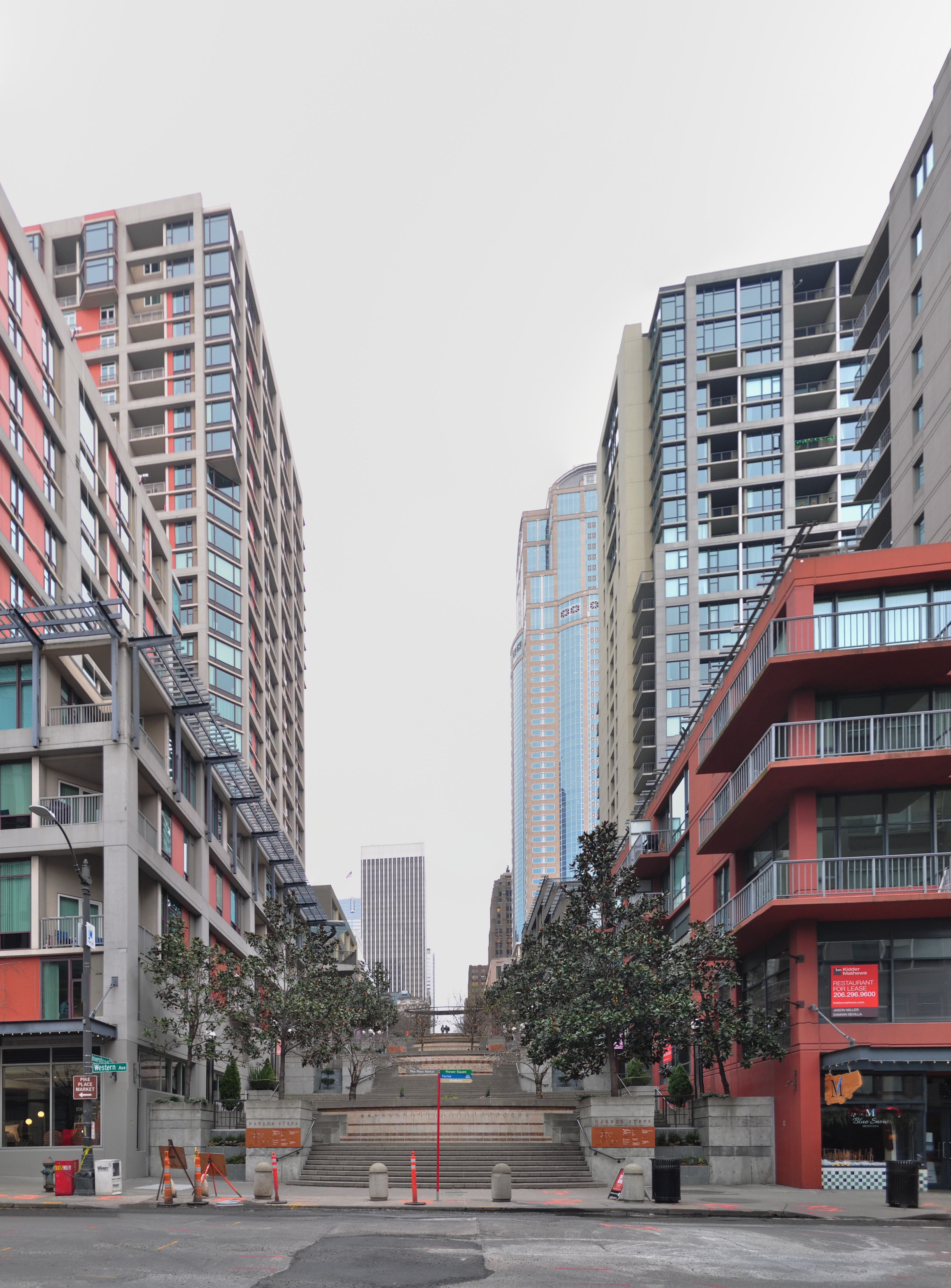 Panoramic view of Harbor Steps, Seattle, Washington, U.S., one of three images created from the same underlying photos: Seattle - Harbor Steps rectilinear HDR pano 01 - cropped.jpg Seattle - Harbor Steps cylindrical HDR pano 01.jpg This image was created with Hugin